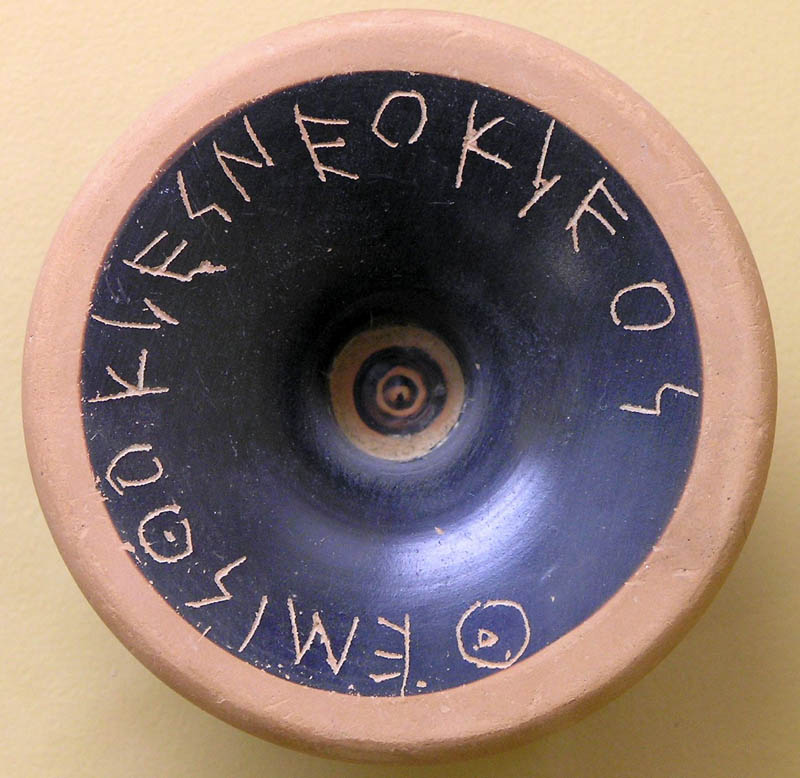 This ostrakon from 482 BC was recovered from a well near the Acropolis. It reads "Themistocles, son of Neocles". The Athenians had a particular voting technique to remove a citizen from the community: Every voting citizen would scratch the name of the person to be exiled into a piece of pottery and hand it in to be counted. For some votes thousands of named pottery pieces have been found.If ostracized, the person was exiled for ten years, and after that time could return and have their property restored. After his ostracism, Themistocles defected to Persia and was made governor of Magnesia.